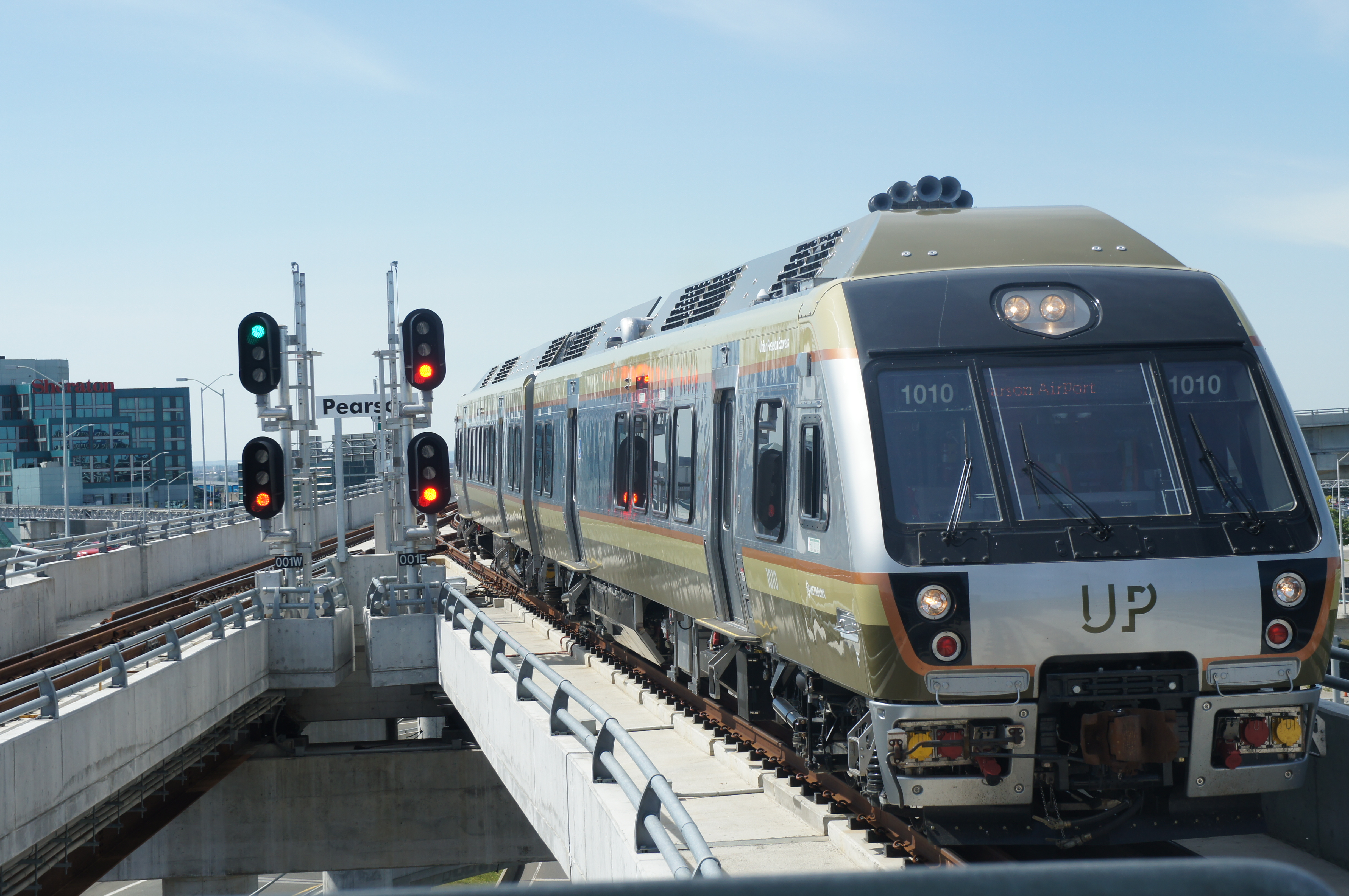 Union Pearson Express DMU #1010 is Approching at Pearson Station